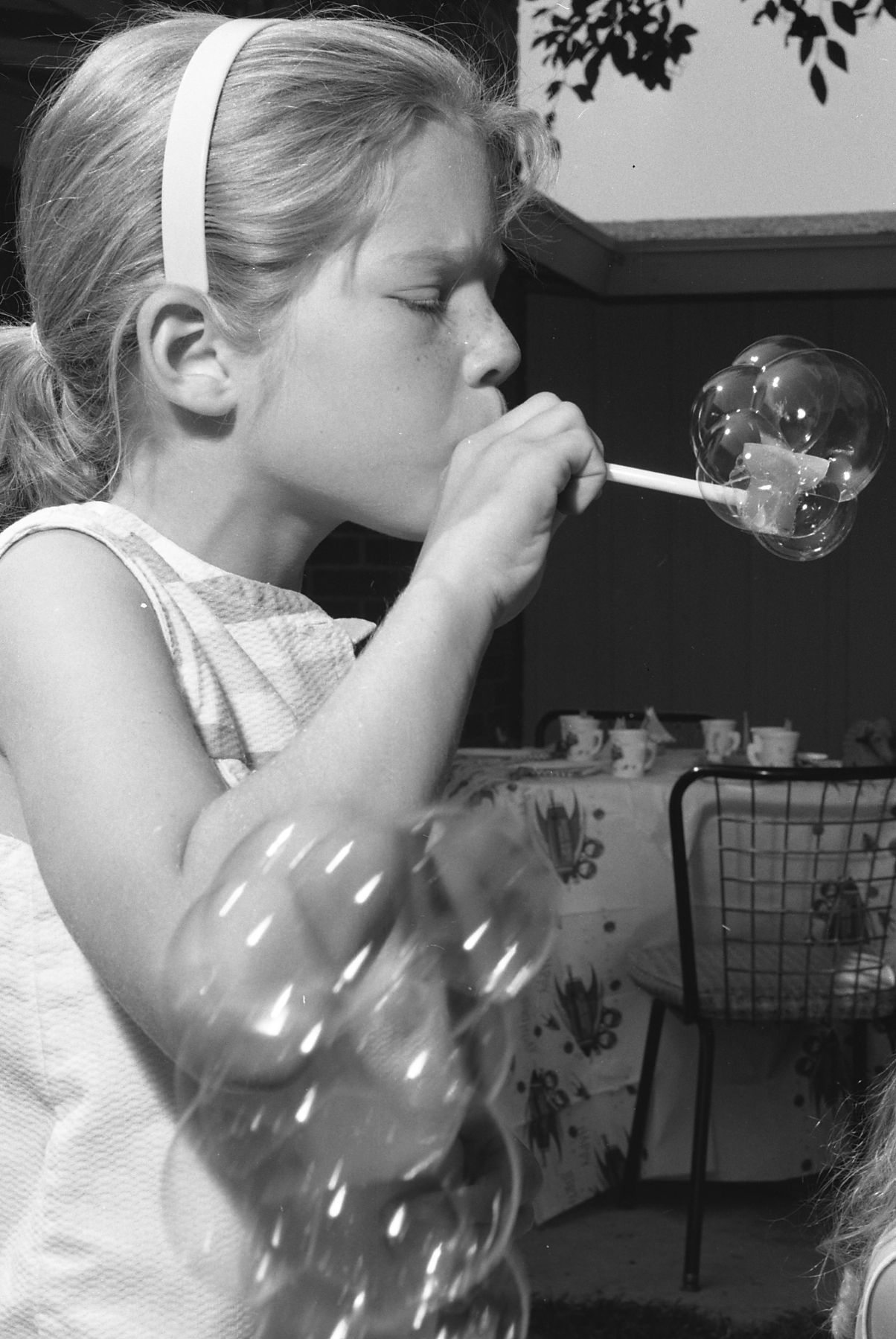 Child blowing a bubble pipe, 1962. Other information Photo by George Garrigues.